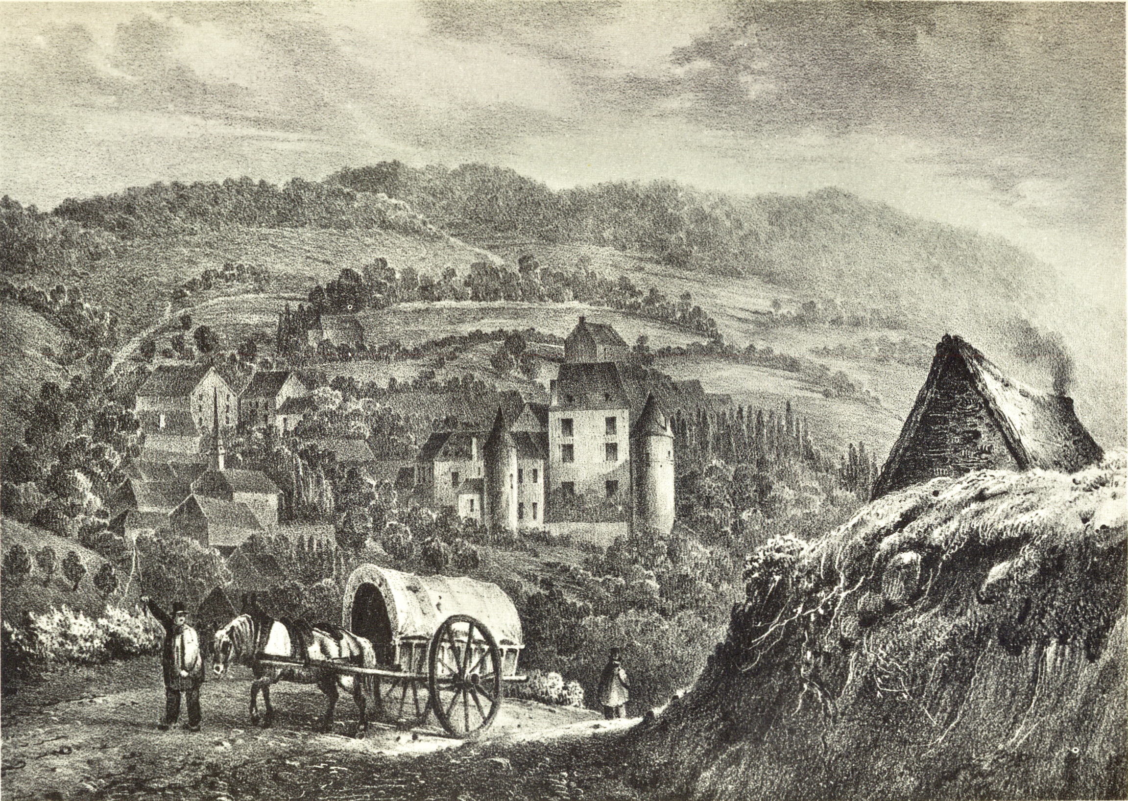 Vue of Berg (Colmar-Berg). Drawing.